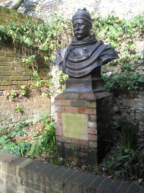 Bust of a great, great man Namely William Walker without whom the magnificent Winchester Cathedral would have been lost.